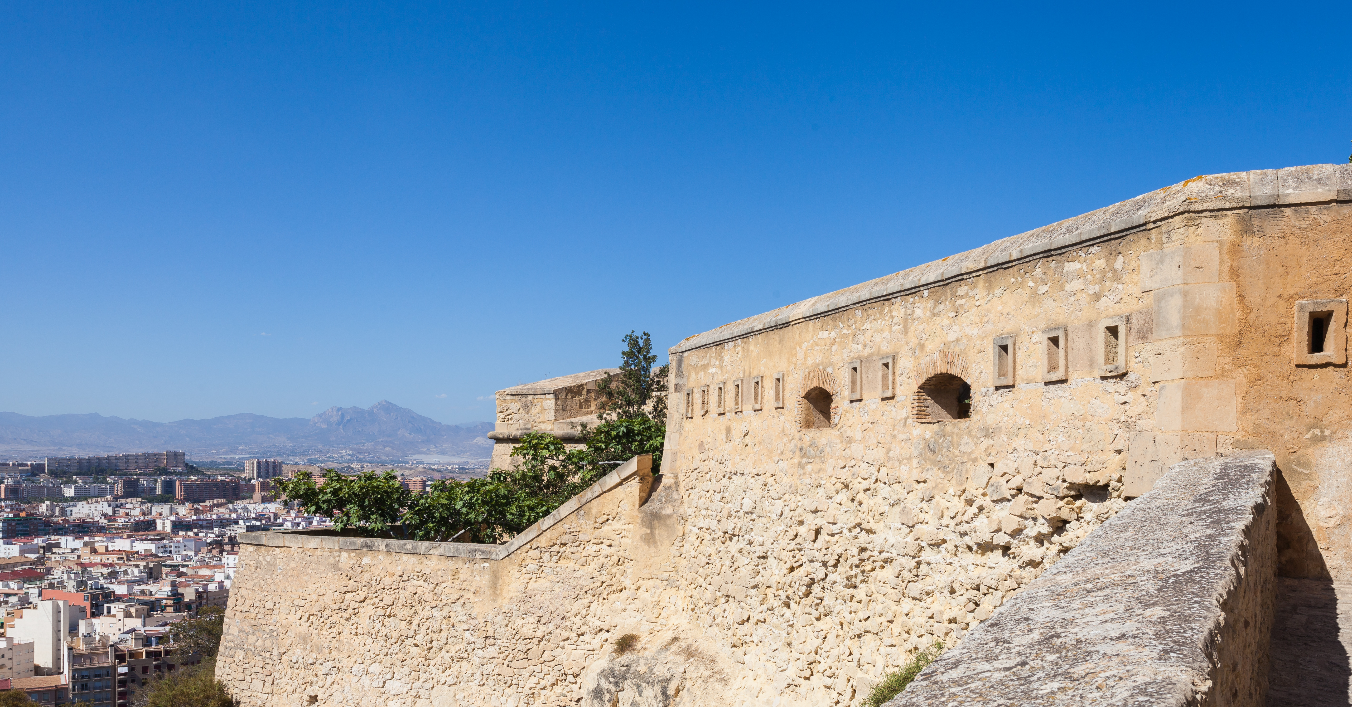 Castle of Santa Barbara, Alicante, Spain